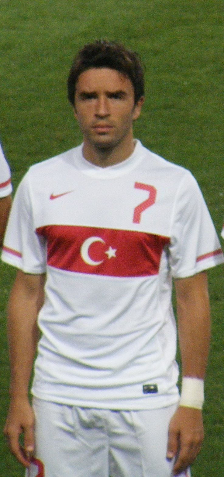 Gokhan Gonul in national jersey at match vs Romania in 11st Aug 2010, Wednesday at Fenerbahce Stadium, Istanbul